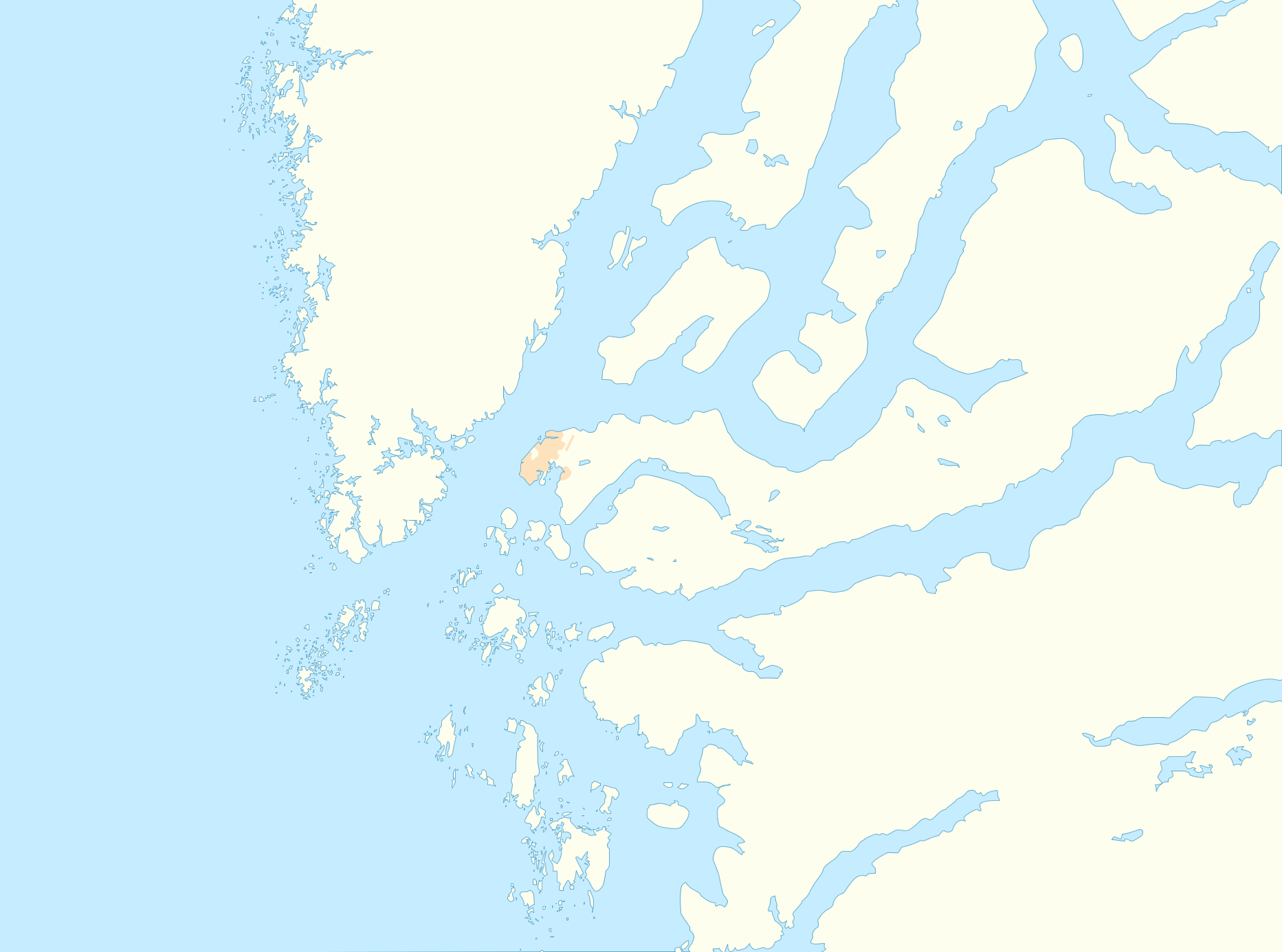 Map of Nuuk The color change is made by me. This map of Nuuk, Greenland was created from OpenStreetMap project data, collected by the community. This map may be incomplete, and may contain errors. Don't rely solely on it for navigation.